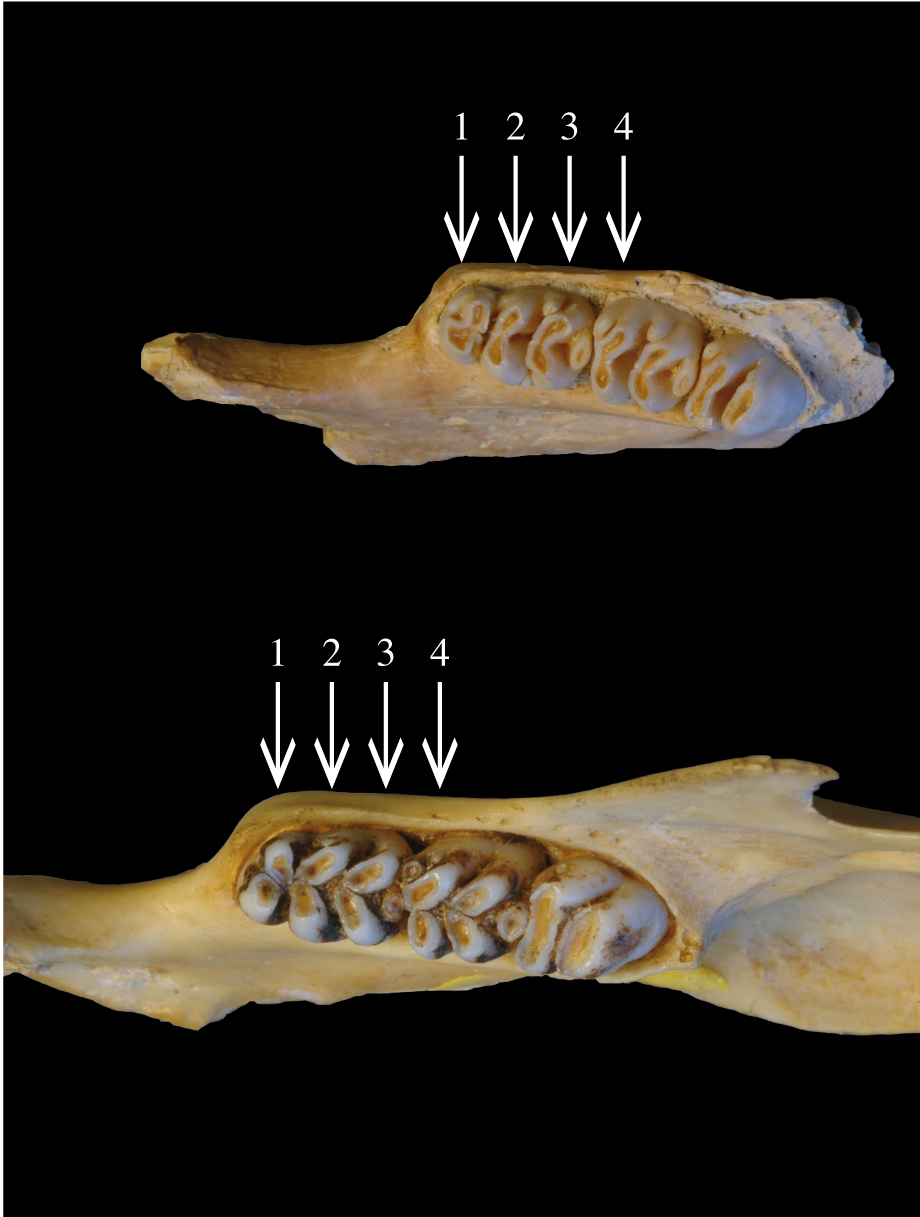 Holotypes of Papagomys theodorverhoeveni (above) and Papagomys armandvillei (below). Four diagnostic characteristics are marked: the anterocentral cusp (1), the anterolabial cusplet (2), the posterolabial cusplet (3), and the anterolabial cusp (4).